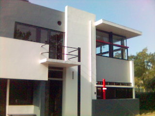 Rietveld-Schröderhuis. Made with my Sony Ericsson K500i cameraphone :)